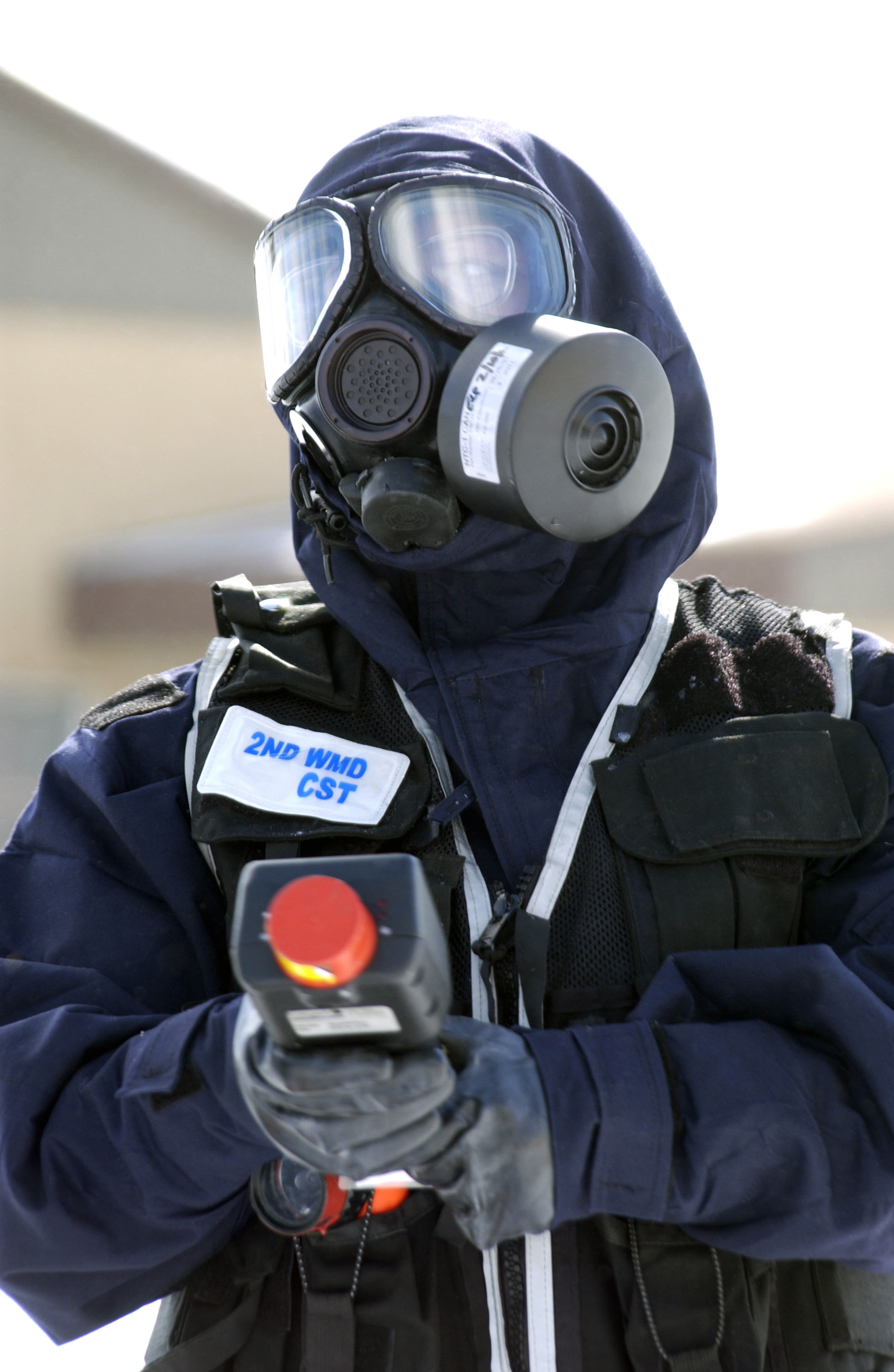 The 2nd Weapons of Mass Destruction Civil Support Team formed from the New York Guard, demonstrate their skills at radiation detection. They are providing training for local first responders at the Niagara Falls Reserve Station, N.Y., on March 8, 2005. (U.S. Air Force photo by Senior Master Sgt. Ray Loyd) (Released)